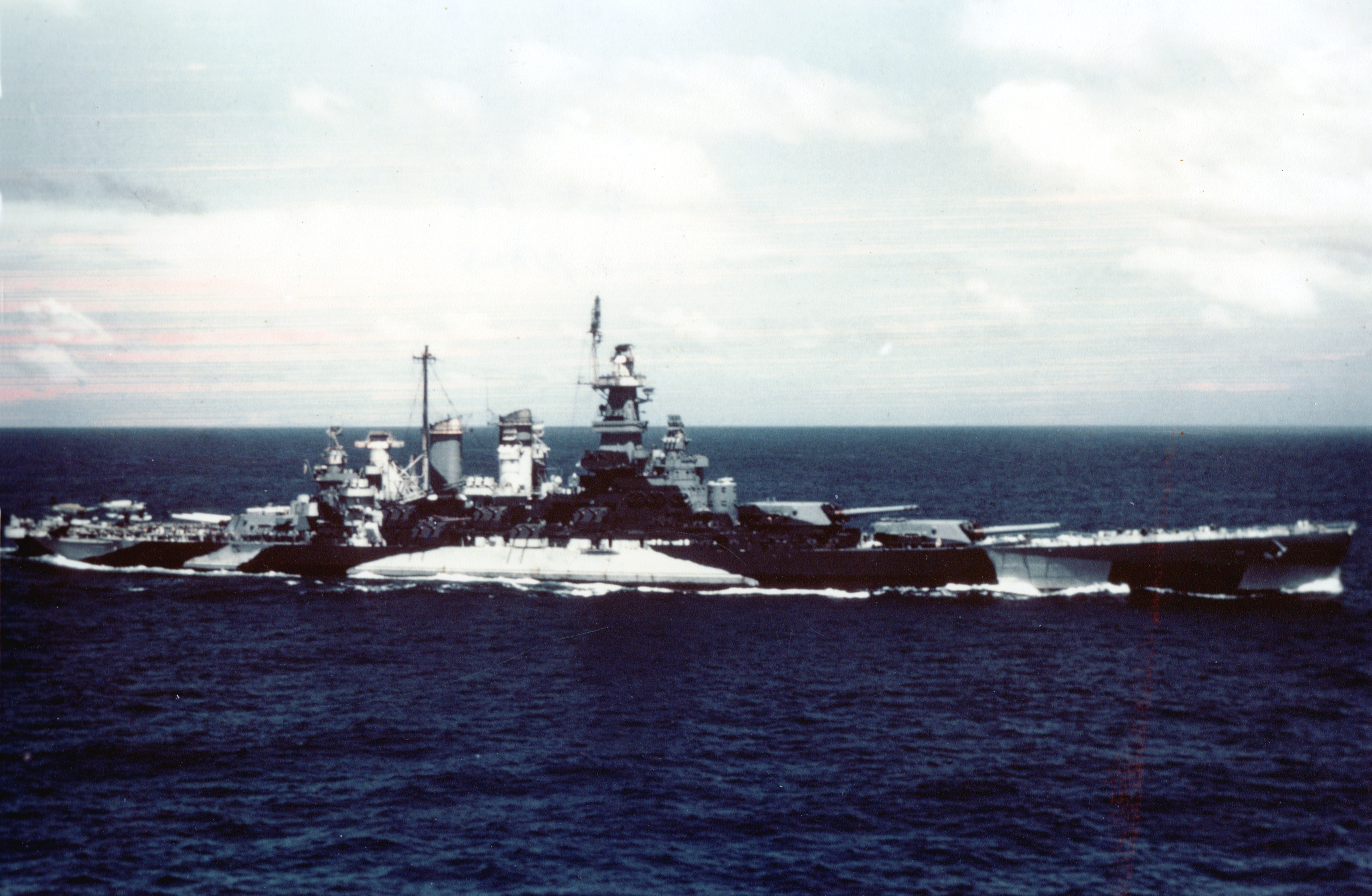 The U.S. Navy battleship USS North Carolina (BB-55) underway at sea during the Gilberts Operation, circa November 1943. She wears camouflage Measure 32, Design 18d early pattern as evidenced by the black lower panel on the starboard bow and the SK radar (rectangular shape).